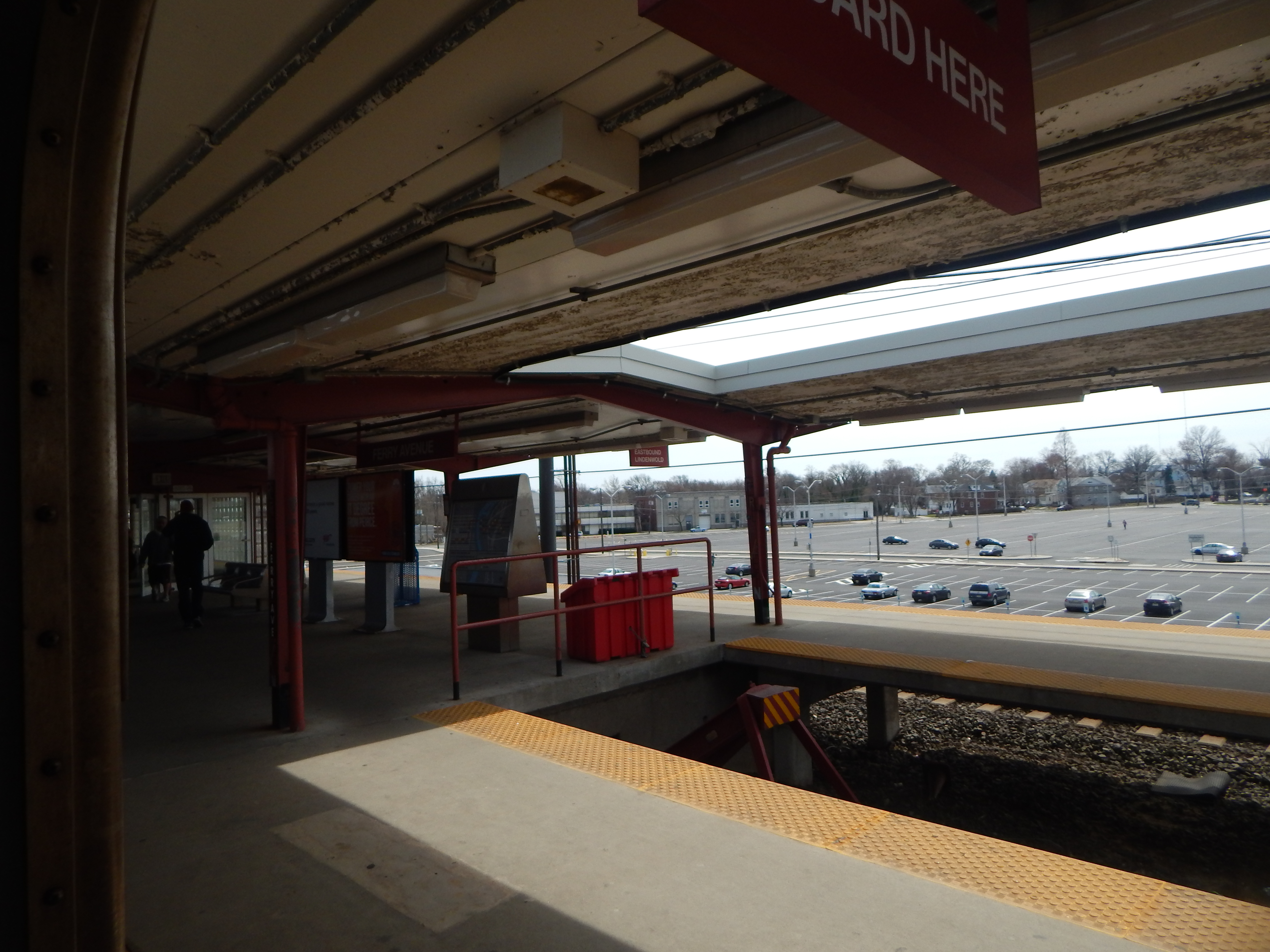 East end of the pocket track at Ferry Avenue station in April 2015